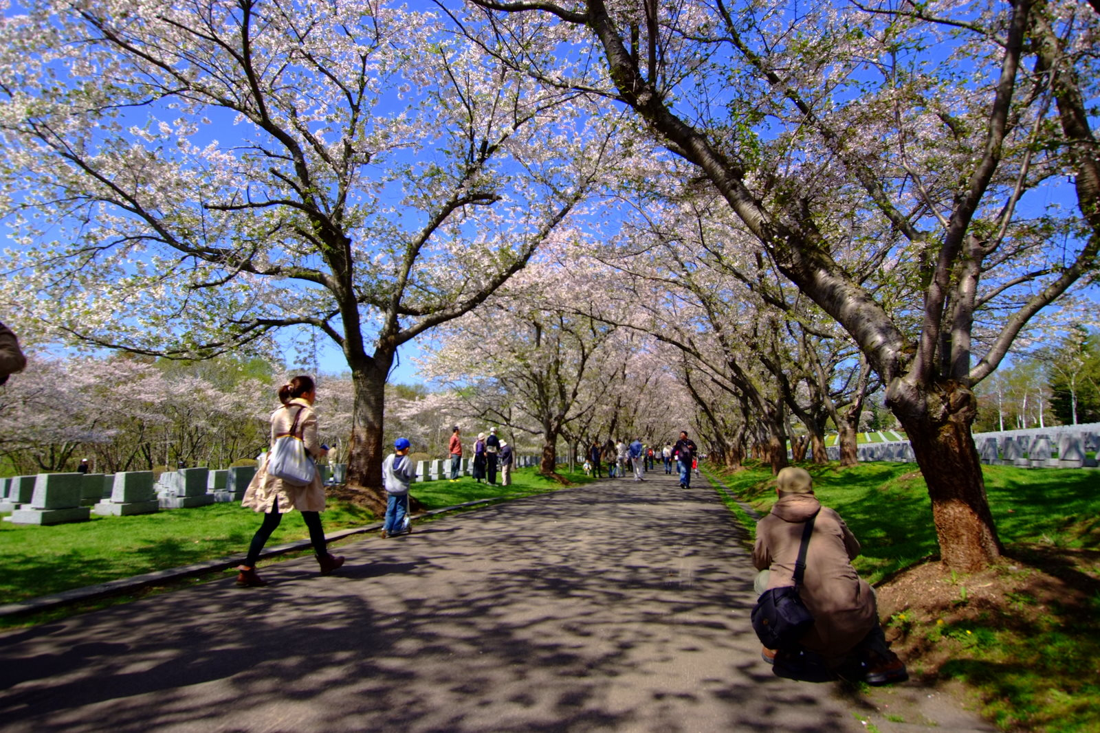 戸田記念墓地公園（Toda commemoration graveyard park）